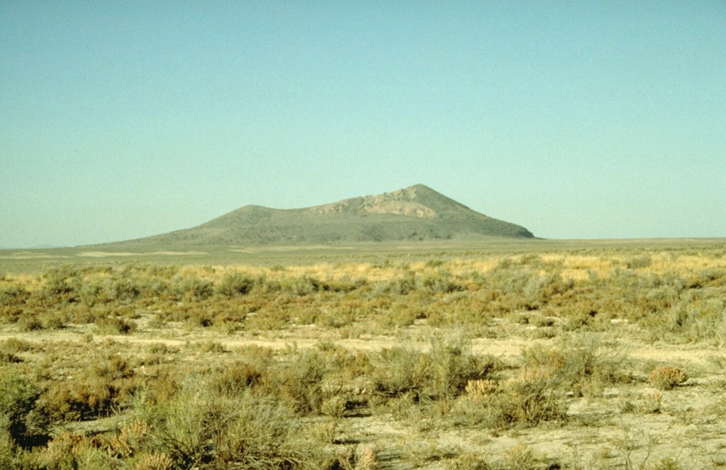 Pahvant Butte, a large tuff cone in the Black Rock Desert volcanic field, was constructed on top of pahoehoe and aa lava flows about 16,000 years ago.